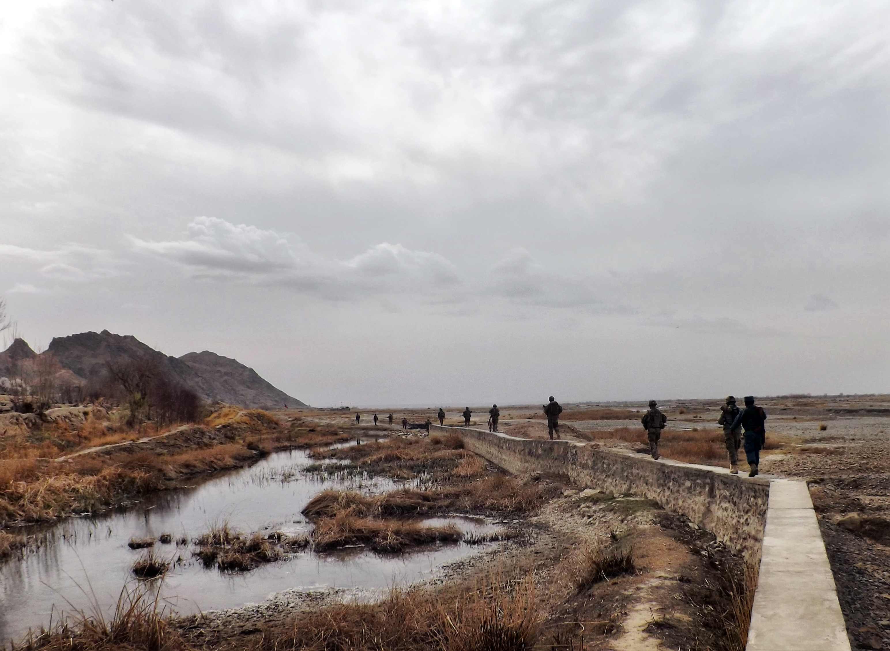 Soldiers of Fierce Company (F Co) 52nd Infantry Regiment Patrol near the Zhari and Panjwai border outside Bazaar-e Panjwai in the first Patrol since the Kandahar Massacre.